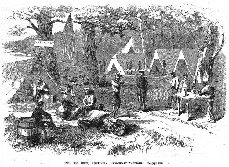 Camp Joe Holt, Kentucky. Sketched by W. Stengel